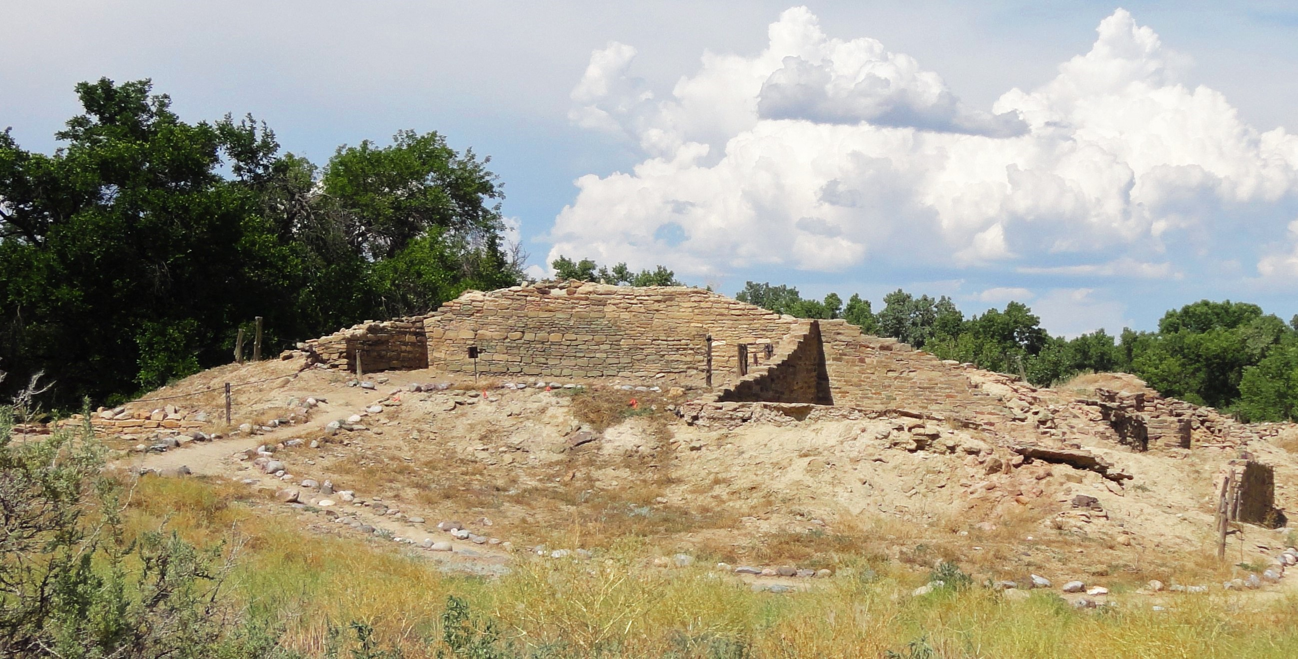 Salmon Ruins, Bloomfield, New Mexico